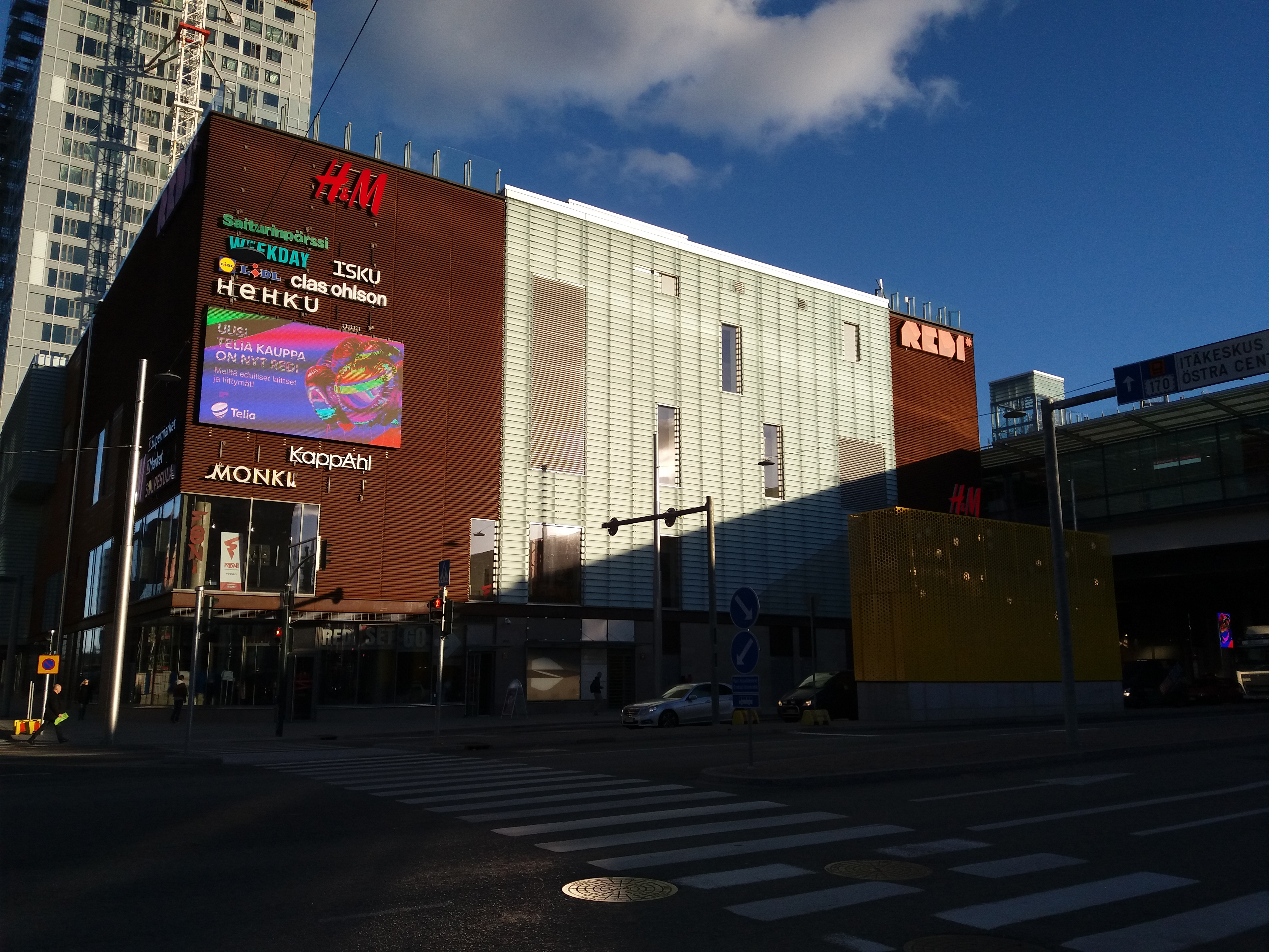 A brand new Redi shopping mall in Helsinki, Finland (inaugurated on 20 September 2018)